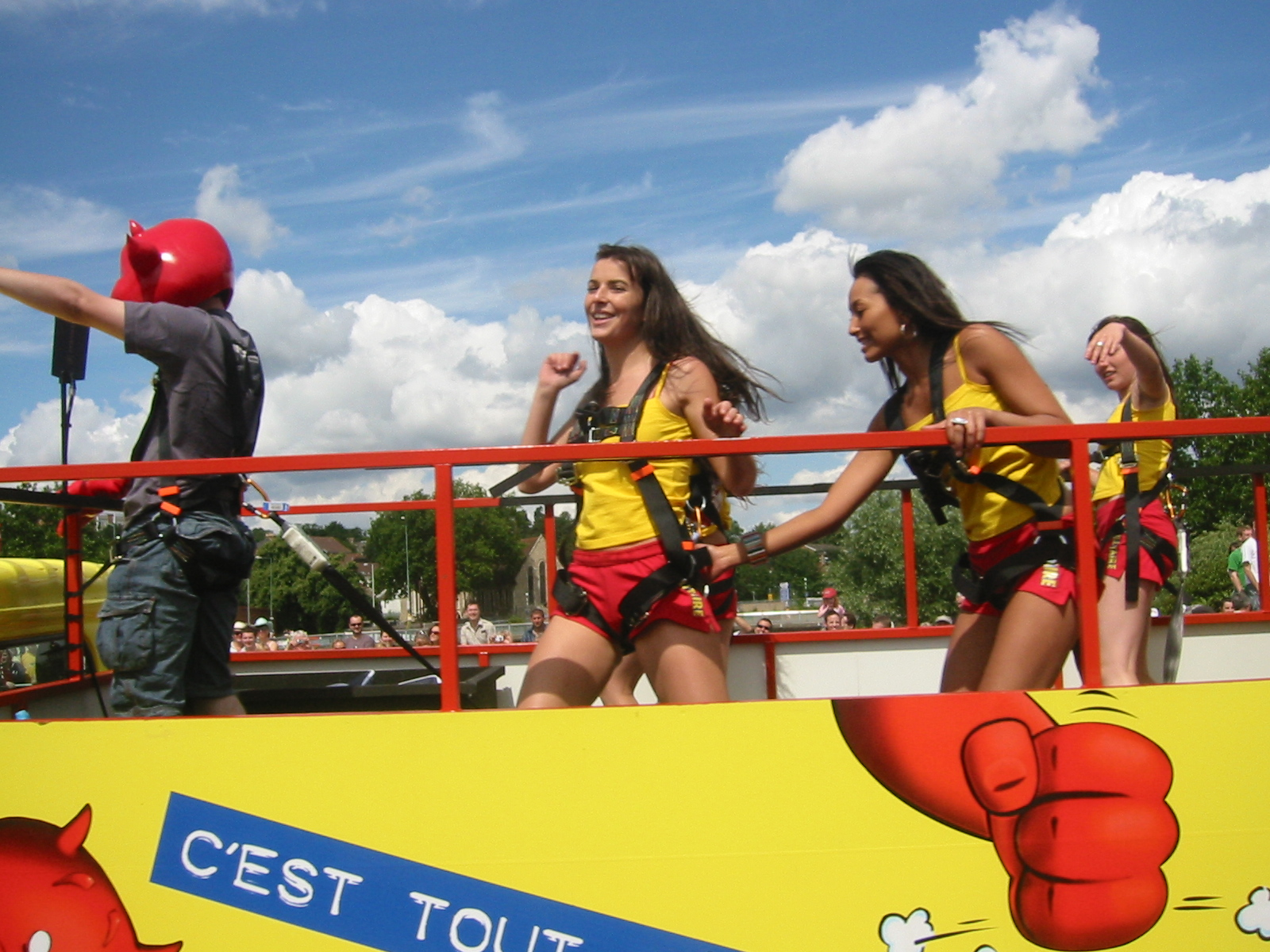 A vehicle from Publicity Caravan - Tour de France 2007 in London